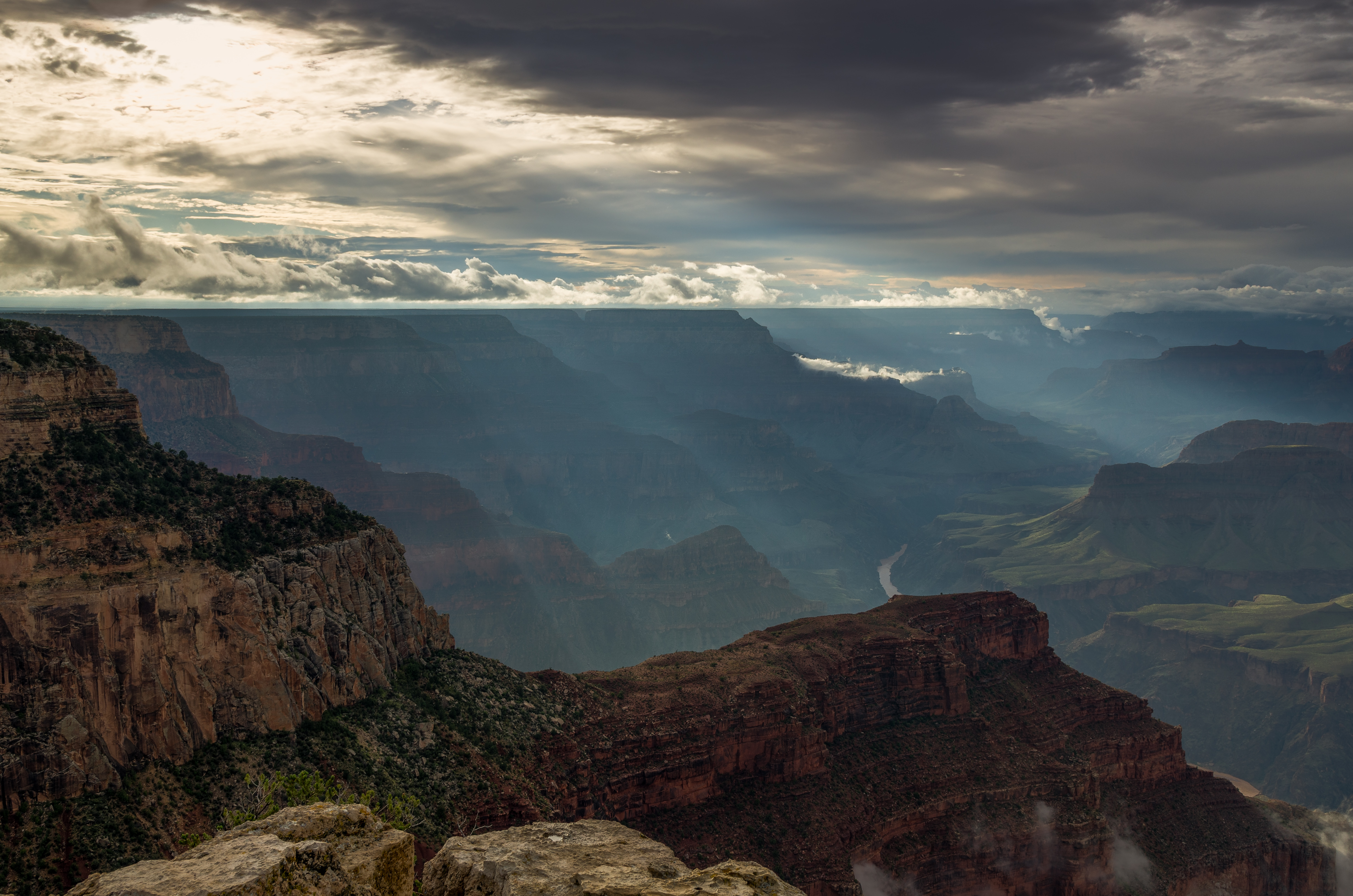 Sun rays at Grand Canyon photographed from Hopi Point